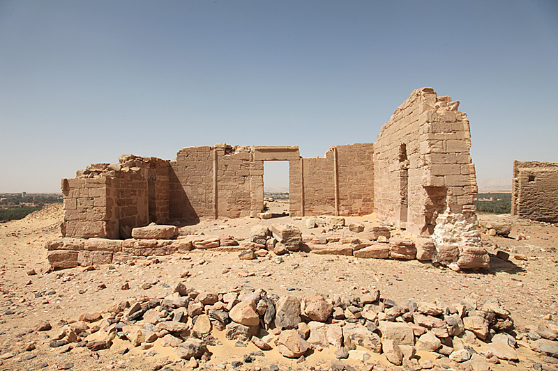 View to the west, upper temple of el-Nadura, el-Kharga depression, Egypt